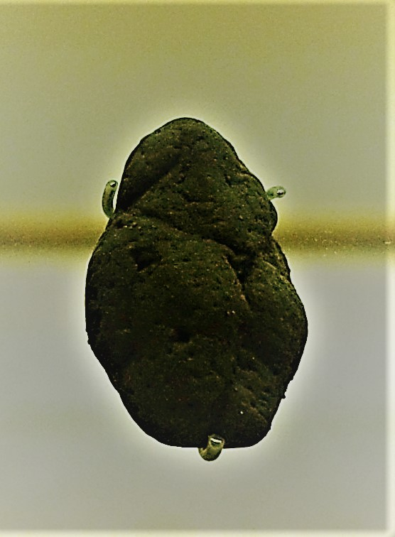 Venus of Berekhat Ram